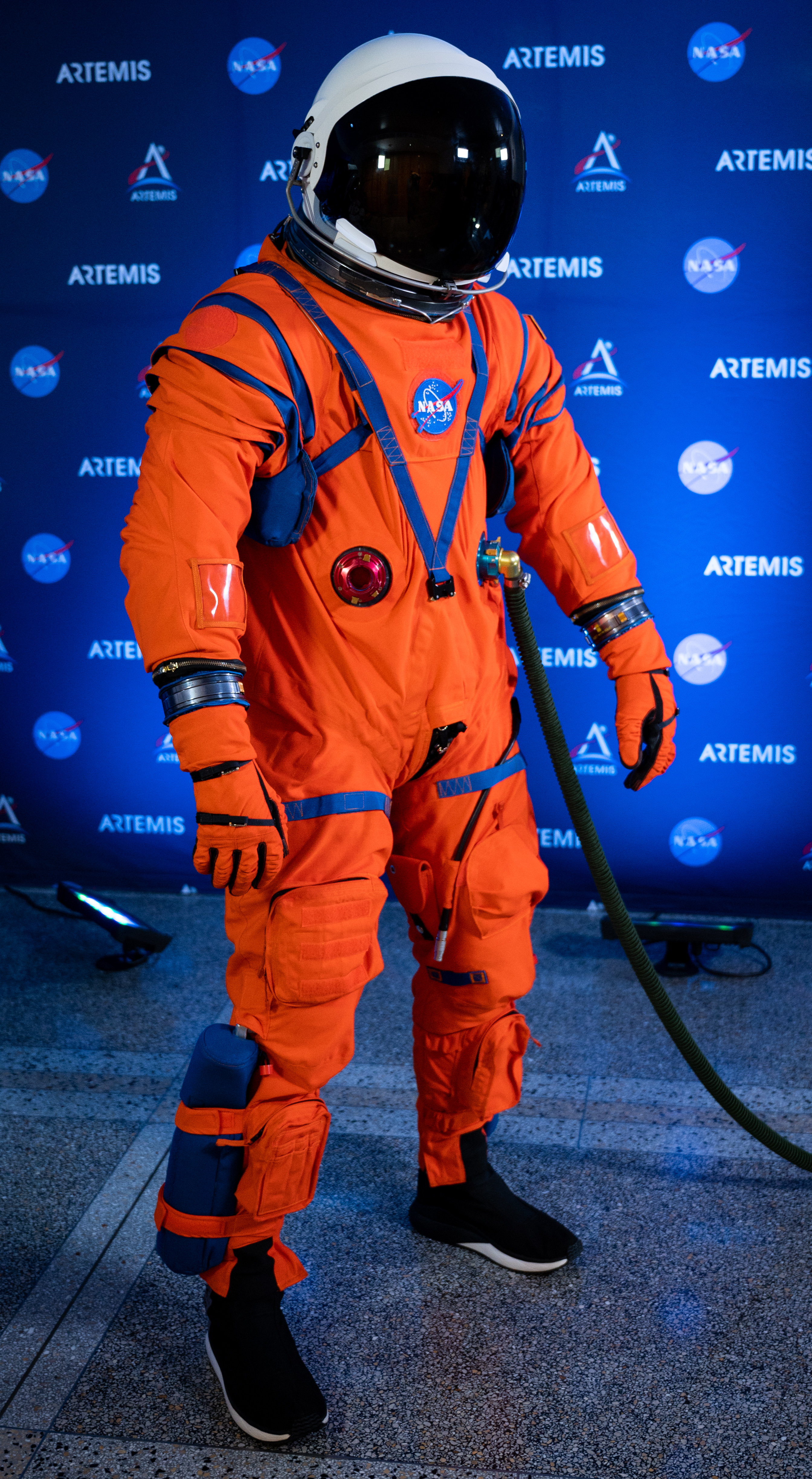 Dustin Gohmert, Orion Crew Survival Systems Project Manager at NASA’s Johnson Space Center, poses for a portrait while wearing the Orion Crew Survival System (OCSS) suit, Tuesday, Oct. 15, 2019 at NASA Headquarters in Washington, DC. The Orion suit is designed for a custom fit and incorporates safety technology and mobility features that will help protect astronauts on launch day, in emergency situations, high-risk parts of missions near the Moon, and during the high-speed return to Earth. Photo Credit: (NASA/Joel Kowsky)